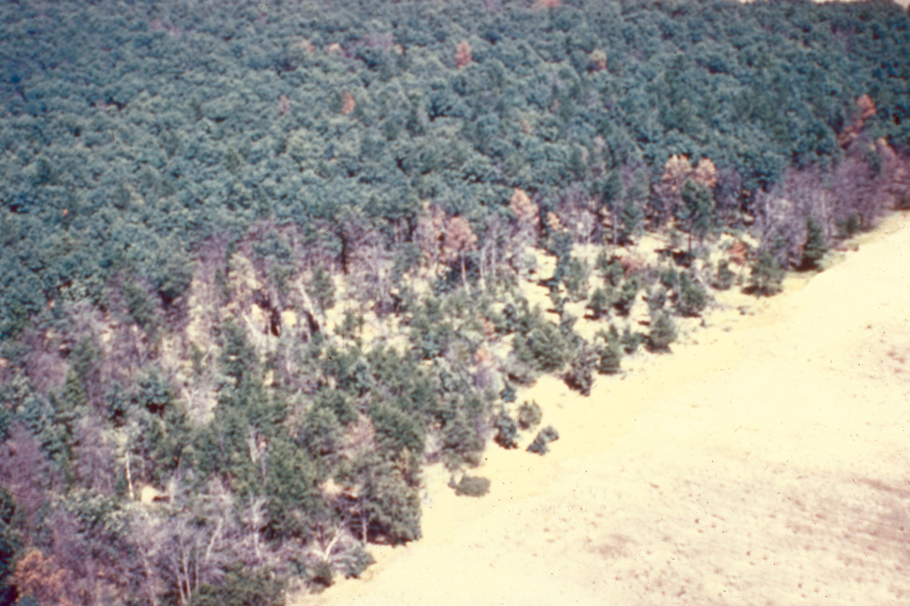 Aerial photograph of an oak wilt center (located at the edge of woodland proximate to St. Paul, MN)